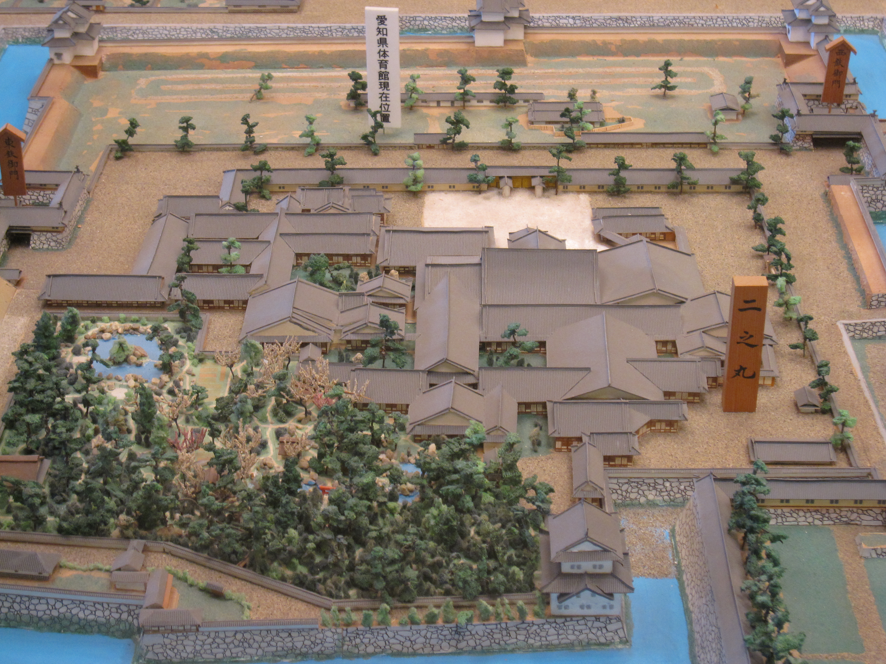 Model of the Ninomaru Palace and its garden of Nagoya Castle, seen from north